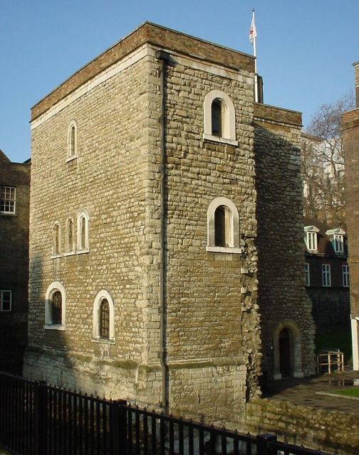 Photo taken by lonpicman Jewel Tower Old Palace Yard London